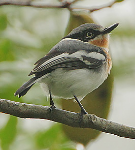 This is a female. Image taken in Arabuko-Sokoke Forest, Kenya.